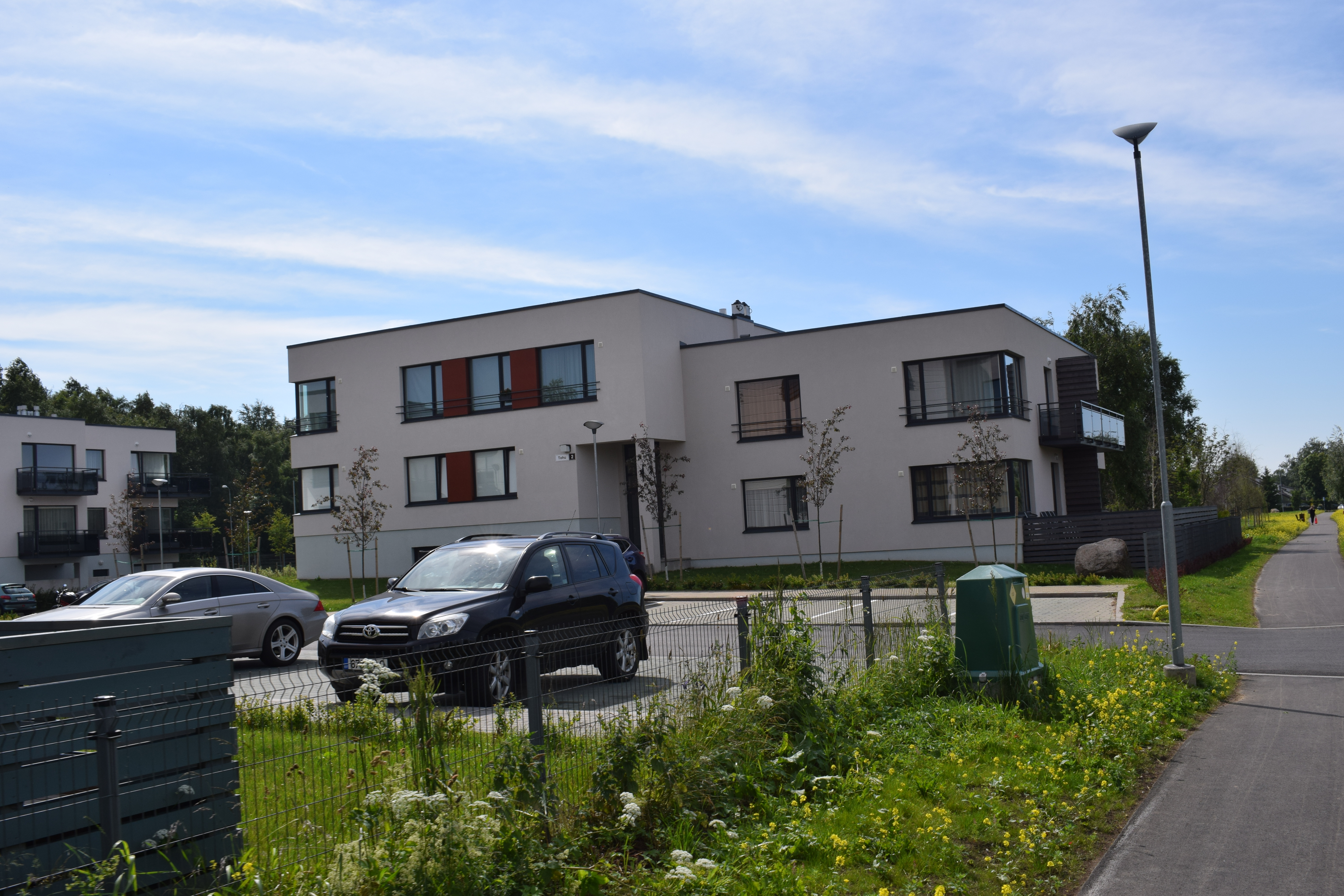 Tohu street 2